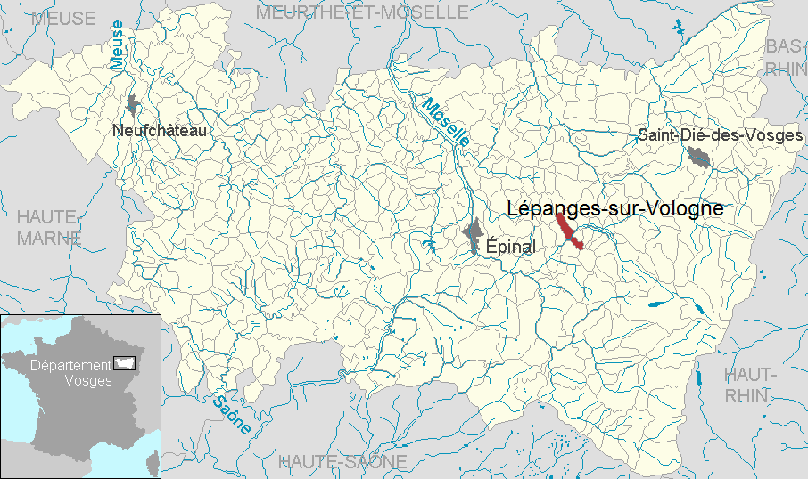 Lépanges-sur-Vologne in the department of Vosges, Lorraine, France